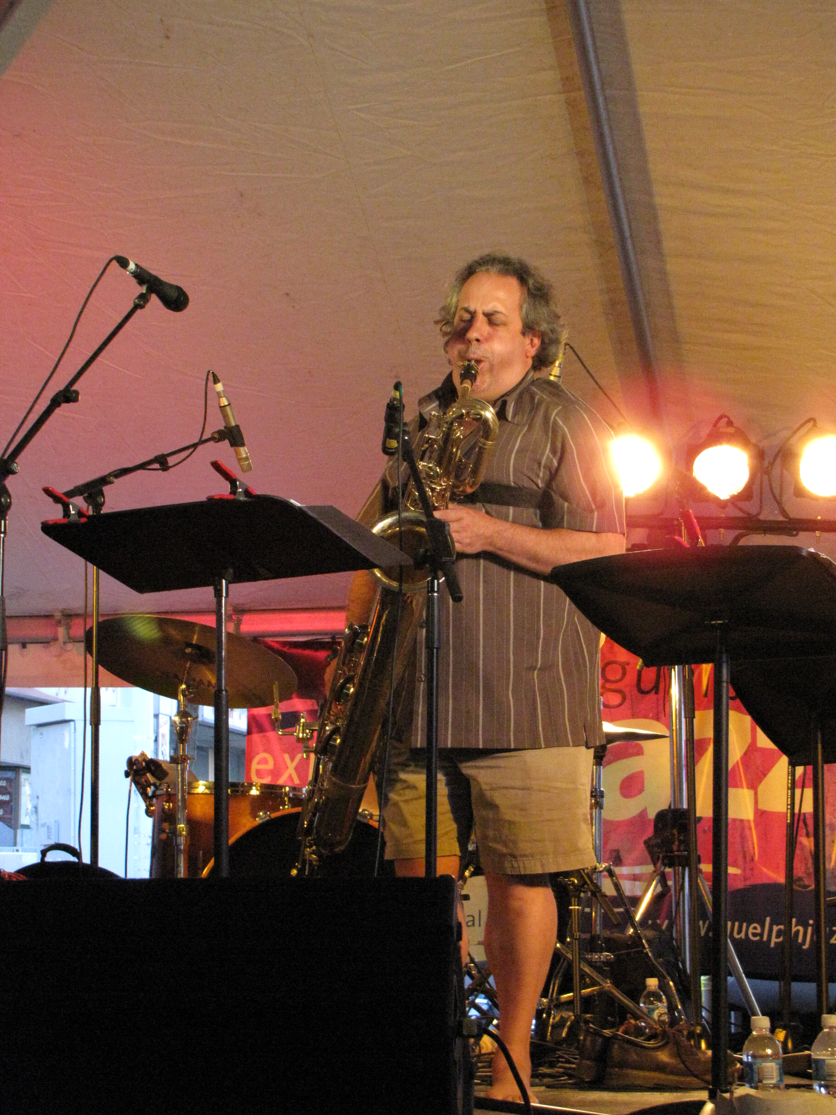 Jean Derome performing at the Guelph Jazz Festival